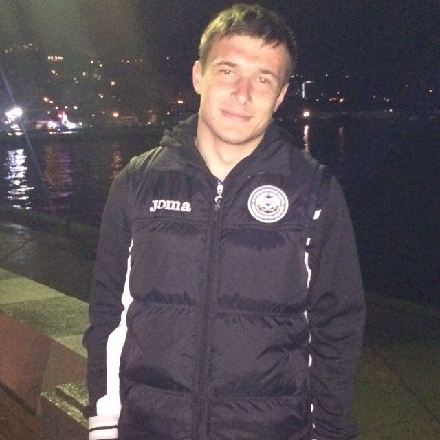 Zzmv8Dy-Fms